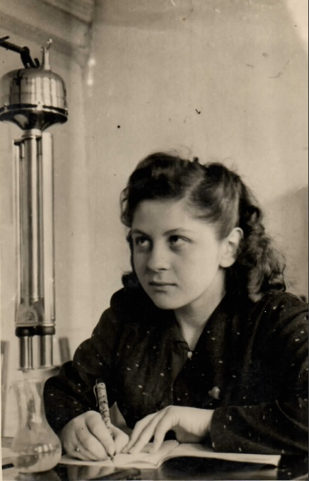 Brigitta Orenstein (Kovarskaia), 1947, Kishinev (Chișinău) State University of Republica Moldova